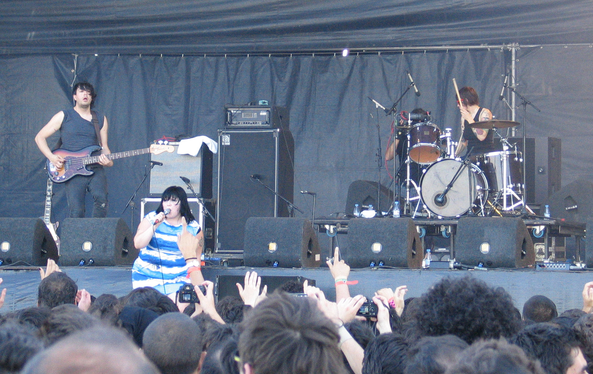 The Gossip at Super Bock Super Rock Festival (Portugal)